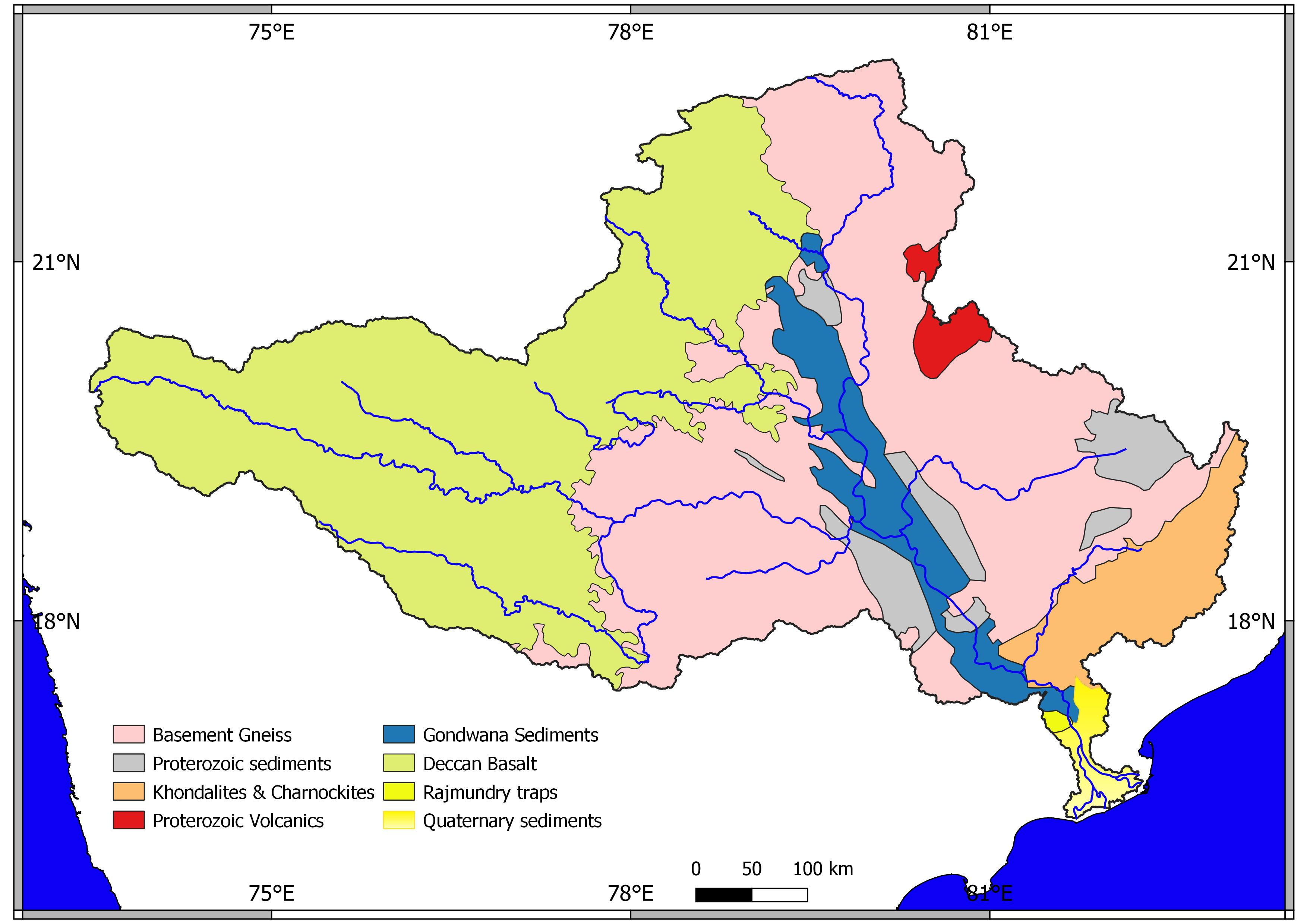 Map Prepared after Geological map of India, by Geological Survey of India with scale 1:2,50,000